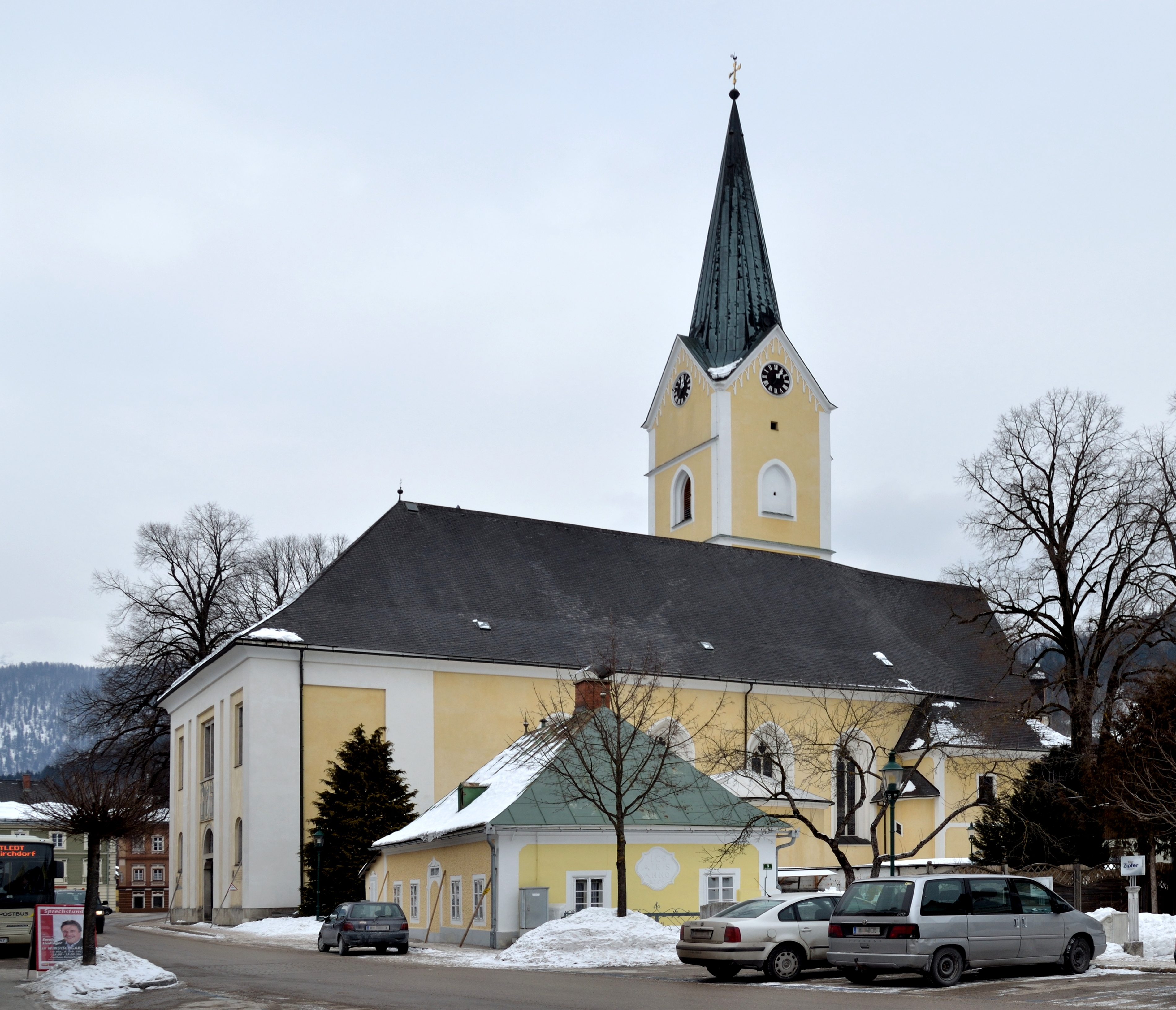 The parish church Saint Jacob in Windischgarten, Upper Austria is protected as cultural heritage monuments. Full exterior view.